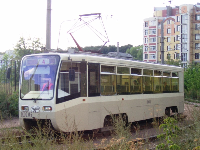 Type 71-619K tram in Ufa, Russia. Car no 1006, line 4.